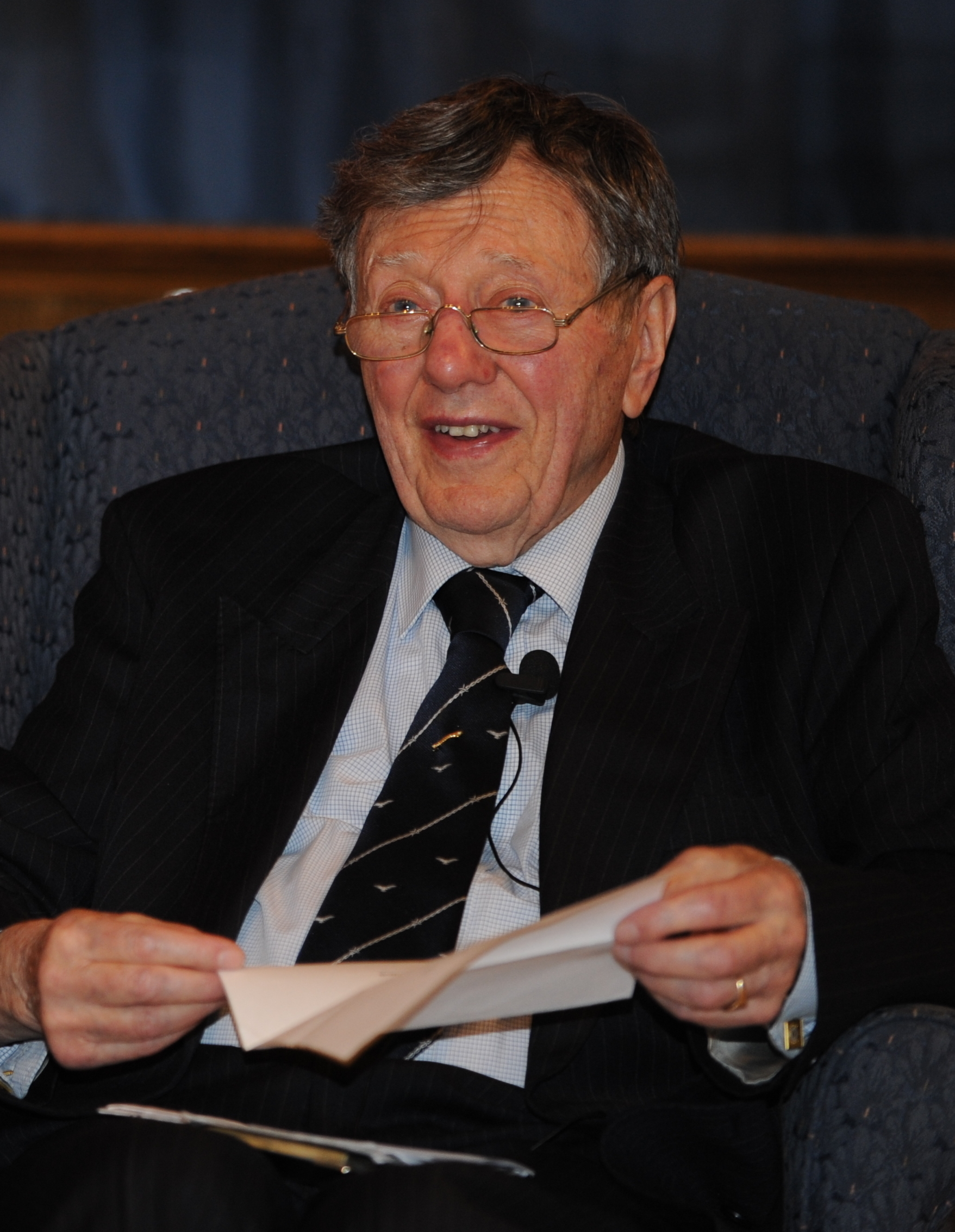 Former prisoner of war retired Royal Air Force Air Commodore Charles Clarke reads a poem to Team Mildenhall members during the Prisoner of War/Missing in Action remembrance luncheon, Sept. 18, 2013, in the Galaxy Club on RAF Mildenhall, England. Clarke read “Three Cheers for the Men on the Ground” in recognition of the support from ground crews he received during World War II. (U.S. Air Force photo by Airman 1st Class Preston Webb/Released)